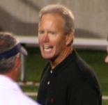 ESPN's Bob Davie at the Glass Bowl in Toledo, Oh. on Sept. 11, 2009, covering the Colorado/Toledo college football game.